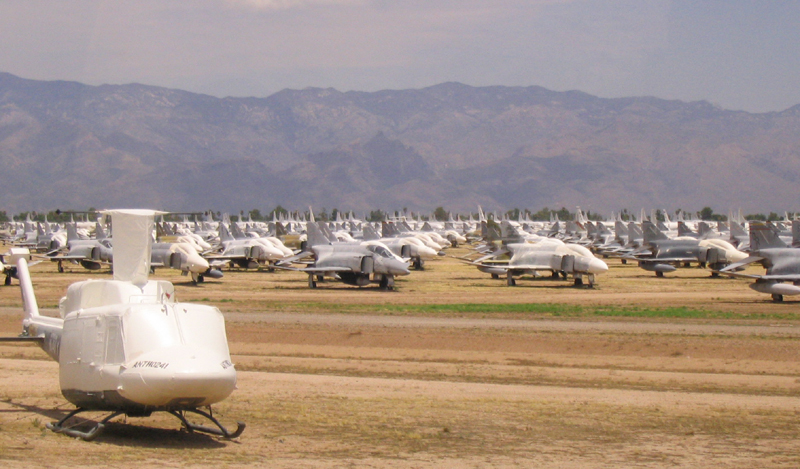 Helicopters and Fighters at AMARC. August 2005.